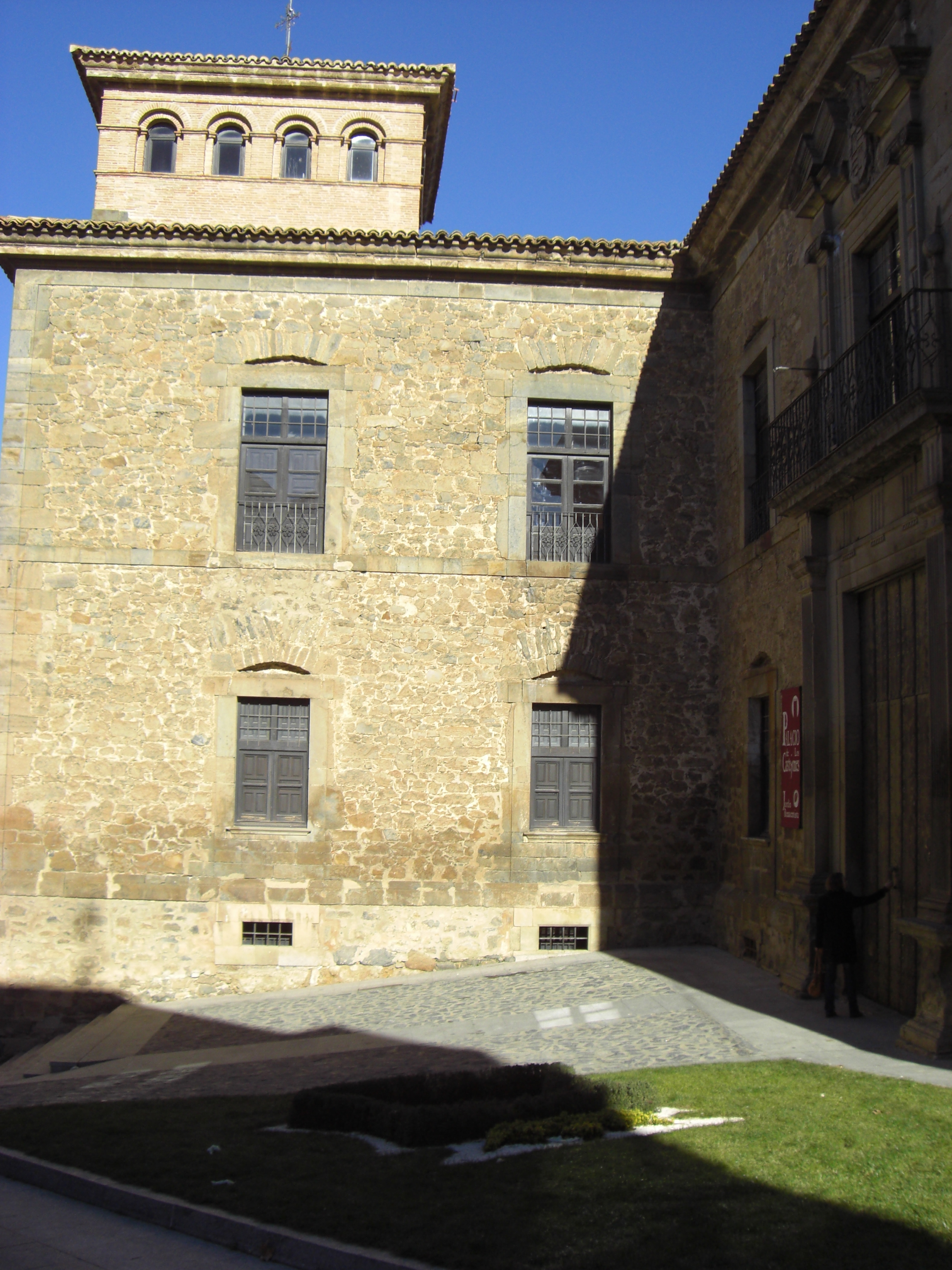 Ágreda, Soria, Spain